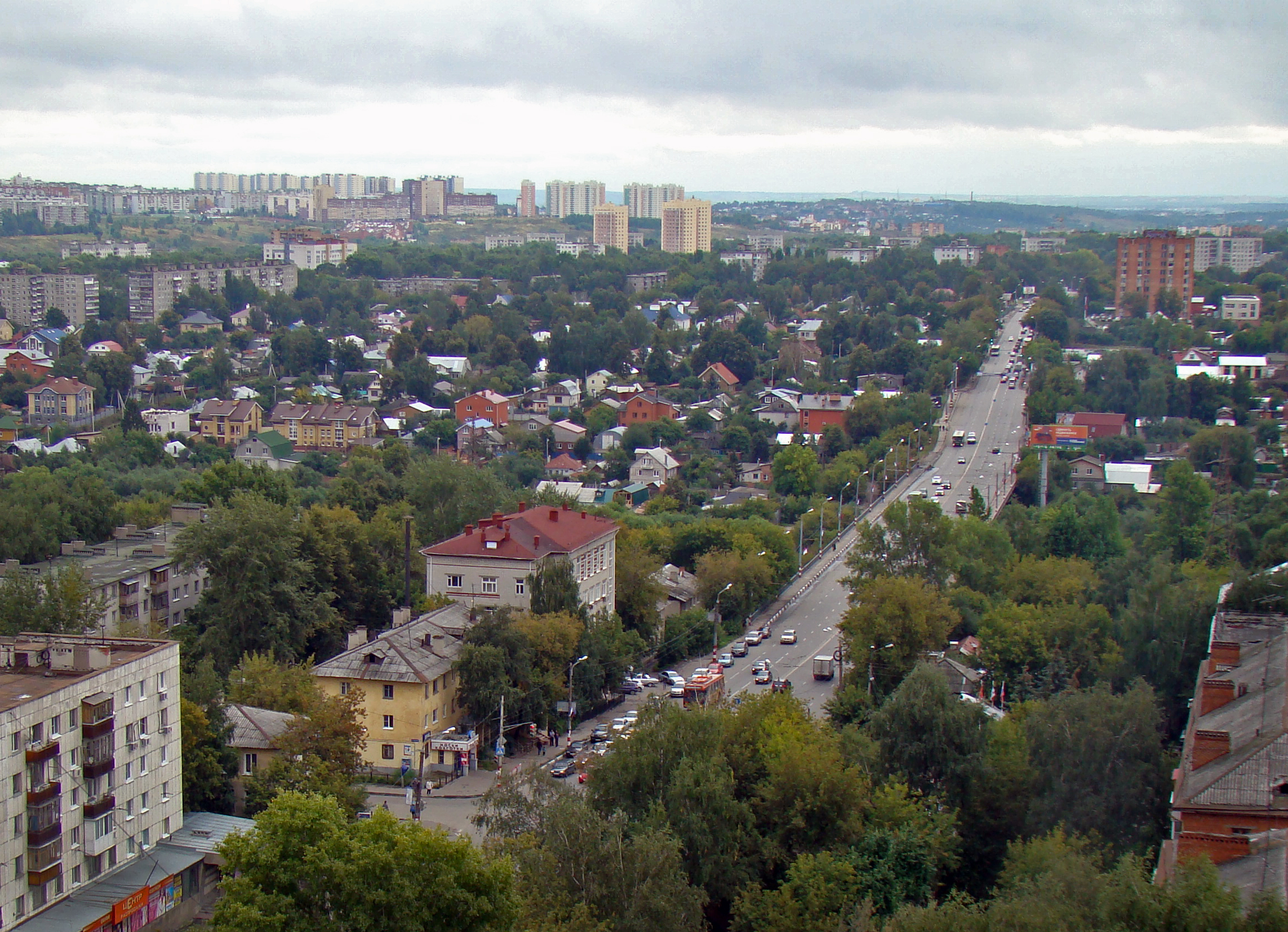 Vaneev Street (Ulitsa Vaneeva), Nizhny Novgorod